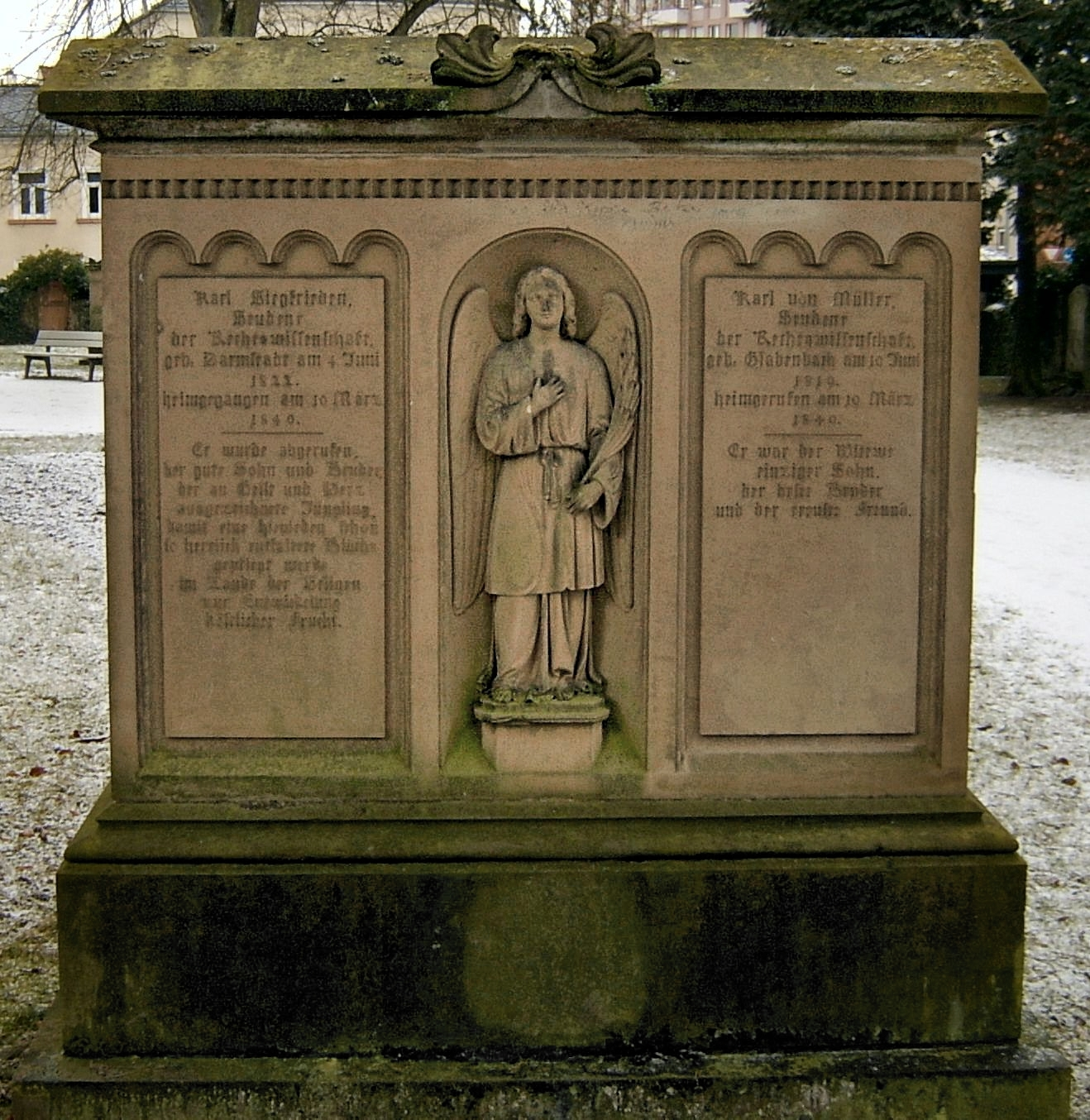 Gravestone on the Alter Friedhof (old cemetery) in Gießen